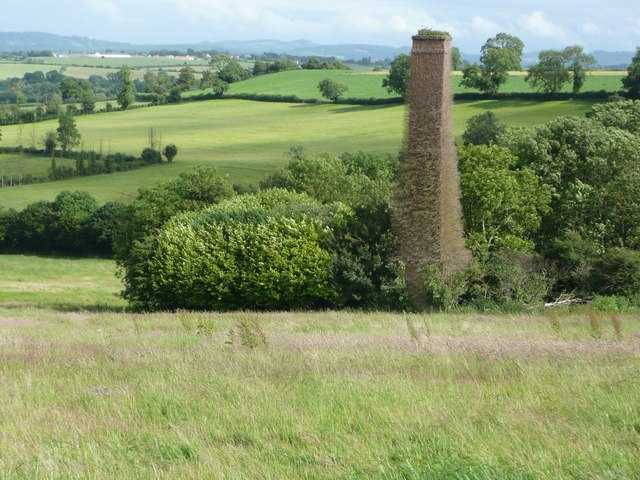 Old mine chimney with Barrow Hill in the background This unsuccessful mine, now long closed, is the most westerly part of the Somerset coal field. Just outside Buckland Dinham, oolitic limestone is the overlying rock and dairy farming the predominant use of land, with some arable crops.